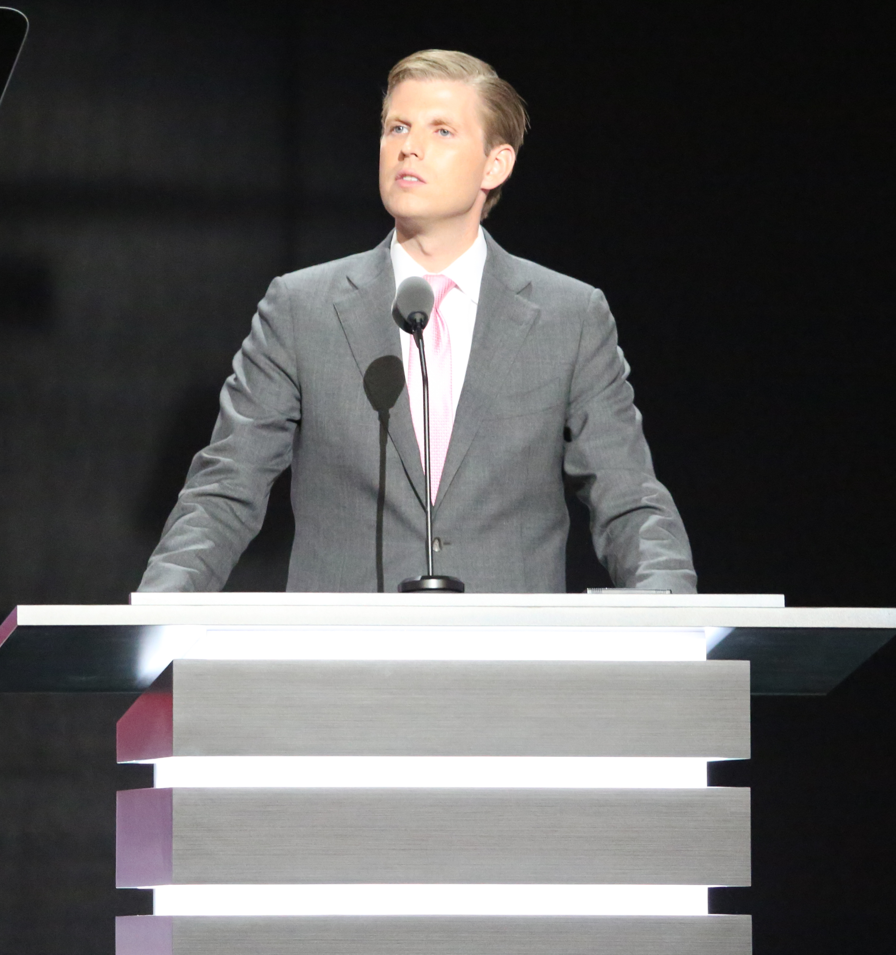 Donald Trump's son Eric delivers a speech at the Republican National Convention in Cleveland, Ohio, July 20, 2016. (Photo: A. Shaker / VOA)